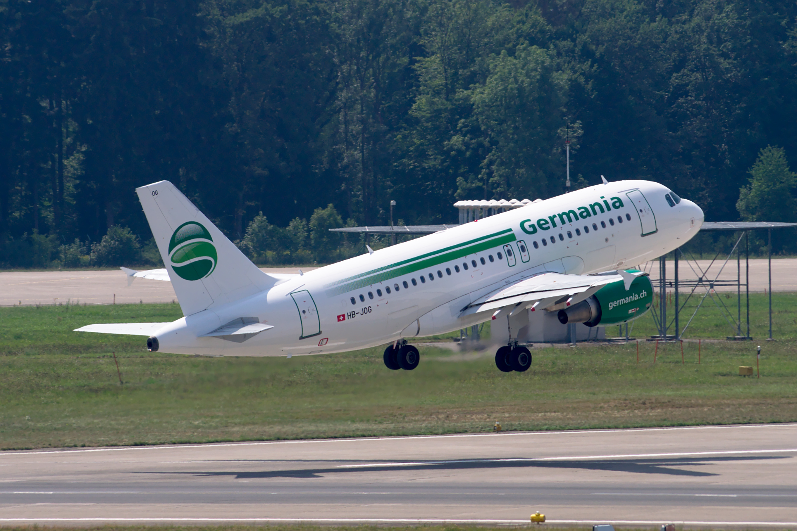 Zürich airport (ZRH).